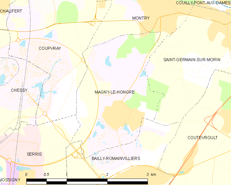 Map of French municipality Magny-le-Hongre